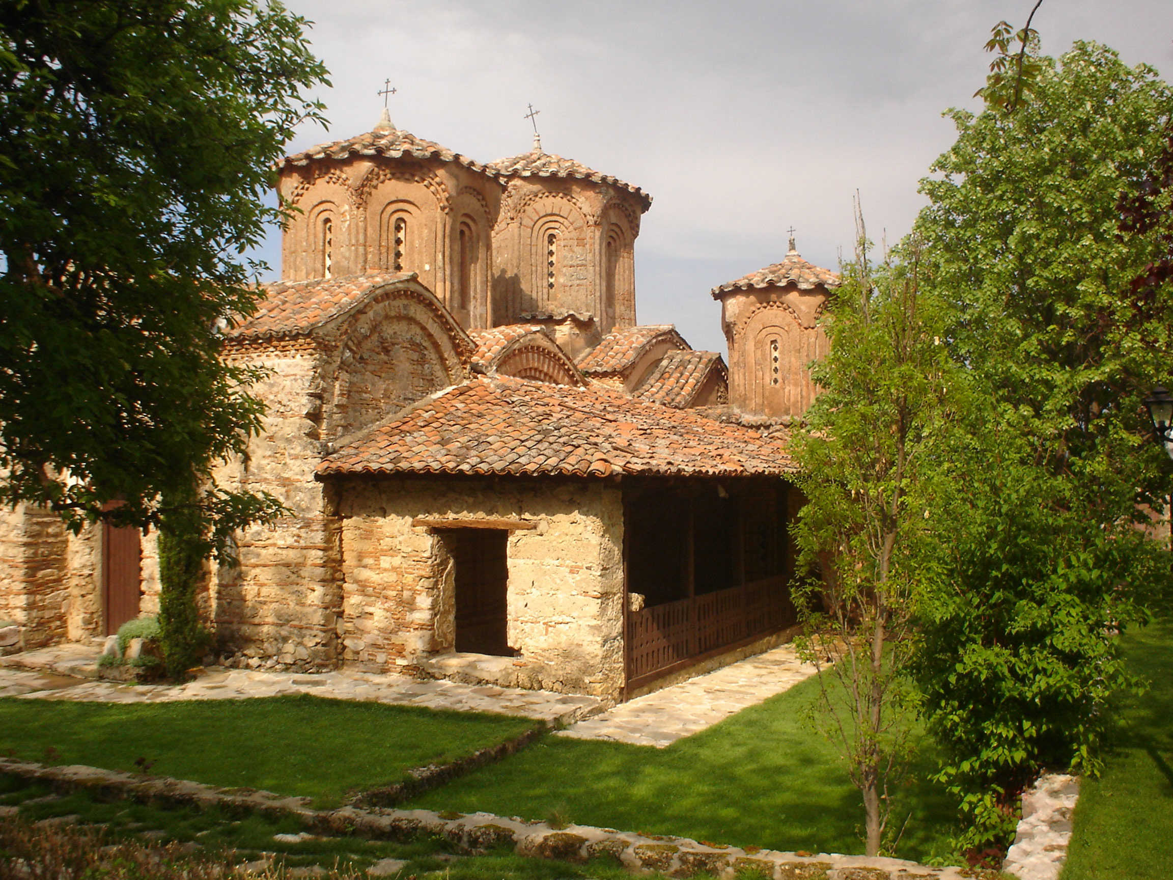 Monastery of The Holy Mother of God Eleusa in Strumica